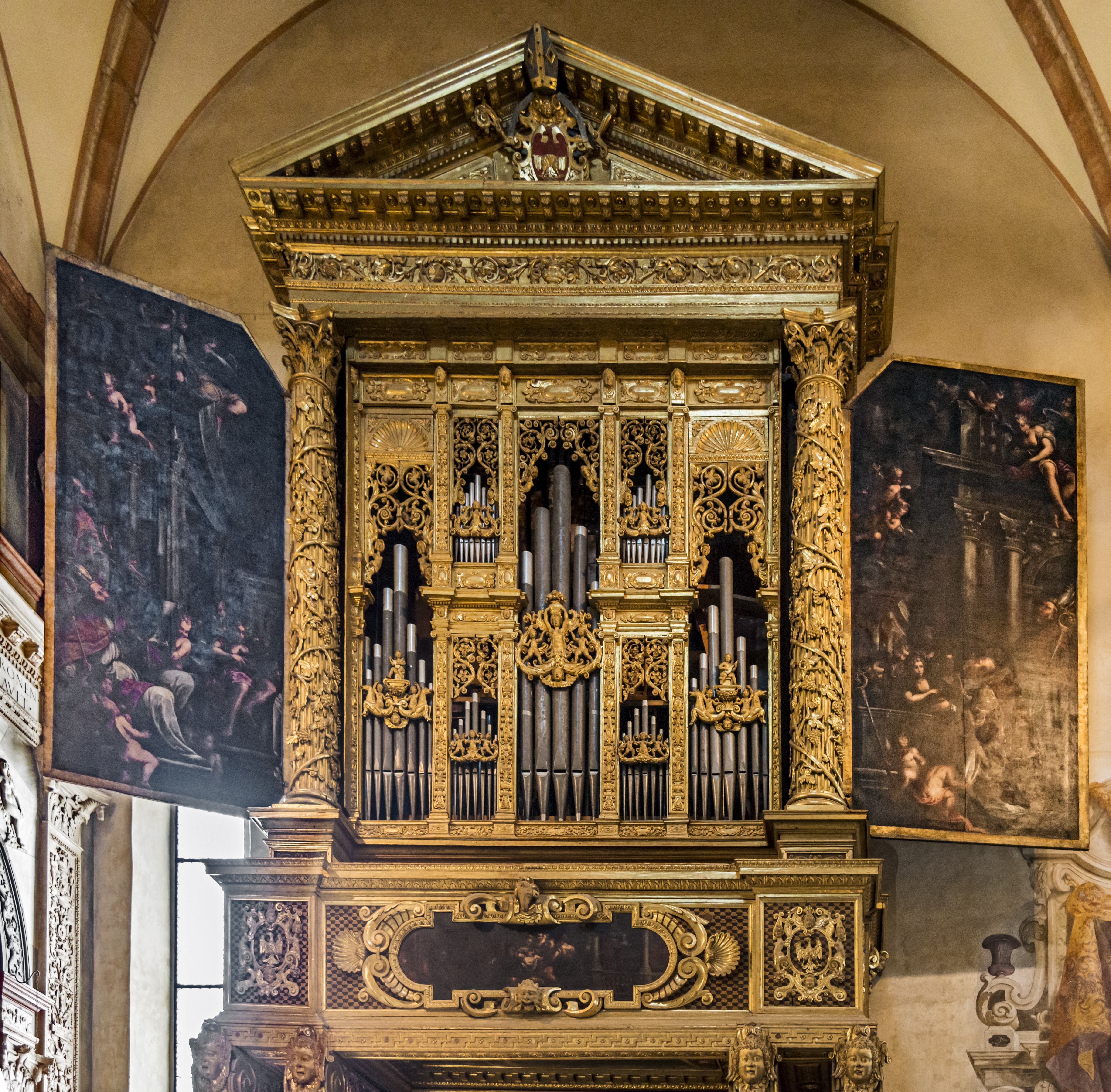 Cathedrale Santa Maria Matricolare. The buffet of organ and cantoria are carved and gilded. The whole is embellished with paintings by Biagio Falceri, in 1683. On the outside doors a 'Assumption of the Virgin Mary' 'and the interior, a' 'sacred conversation with four holy bishops of Verona.